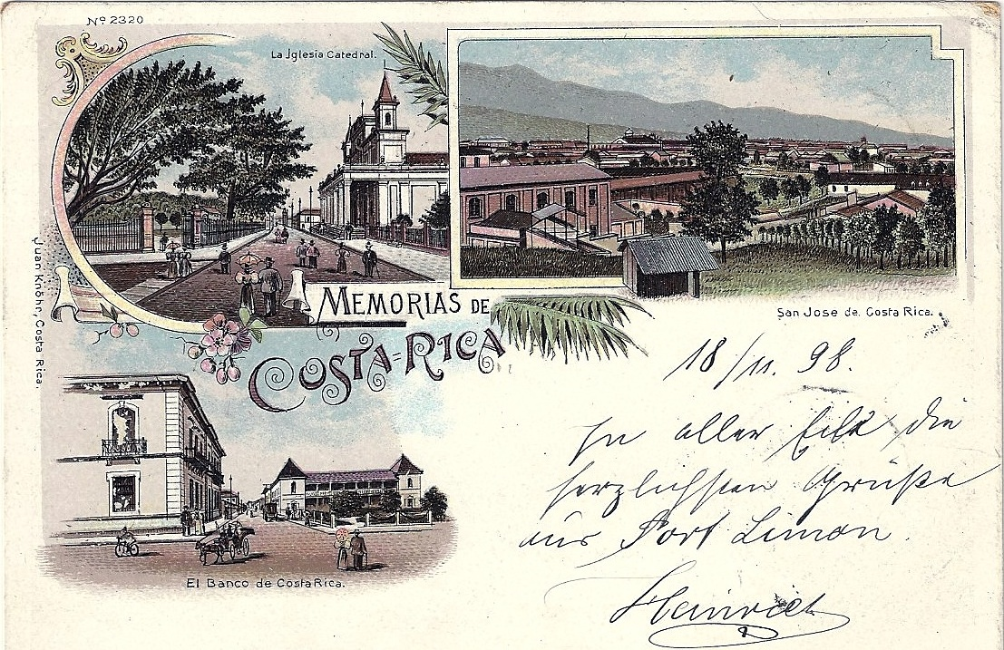 Postcard written in 1898. It is one of the oldest postcards of San José, in Central America. Lithographically printed.